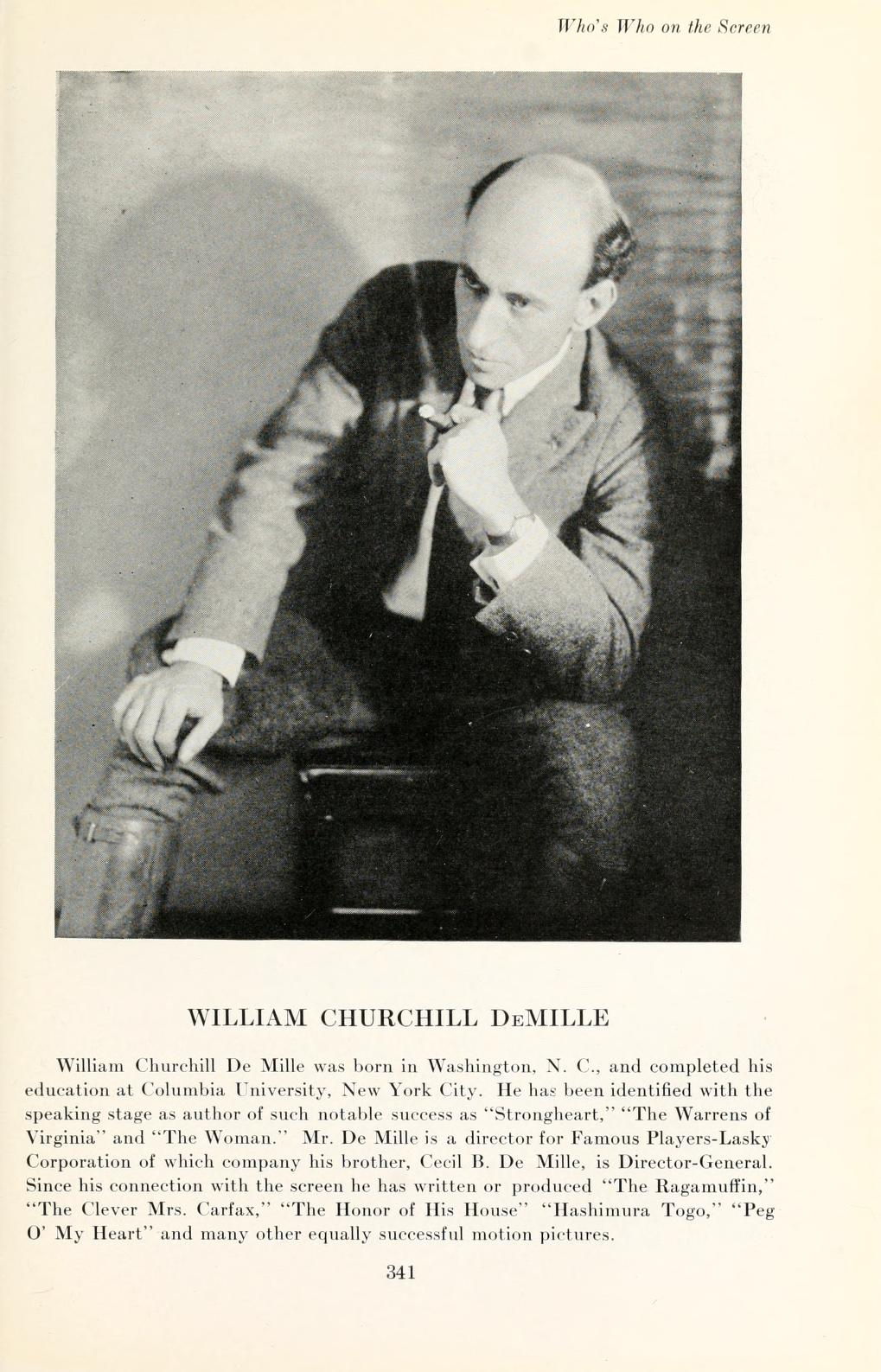 William Churchill de Mille (1878-1955), American playwright and film director